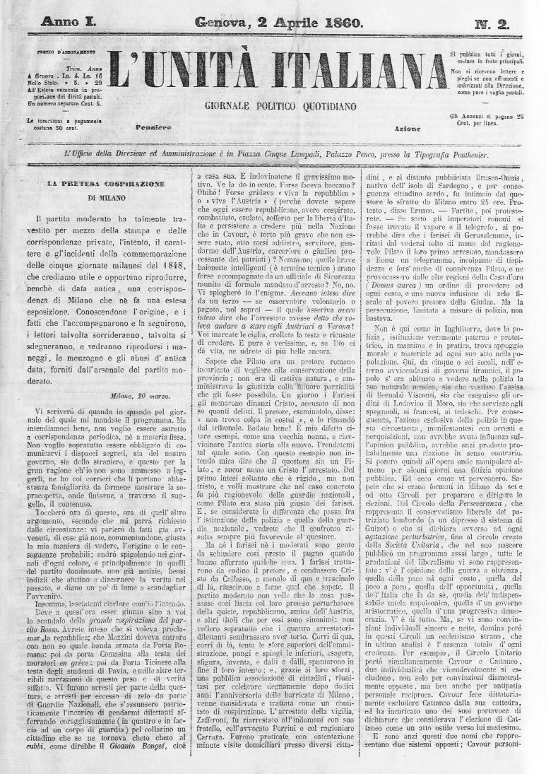 first page of risorgimental newspaper L'Unità Italiana 1860